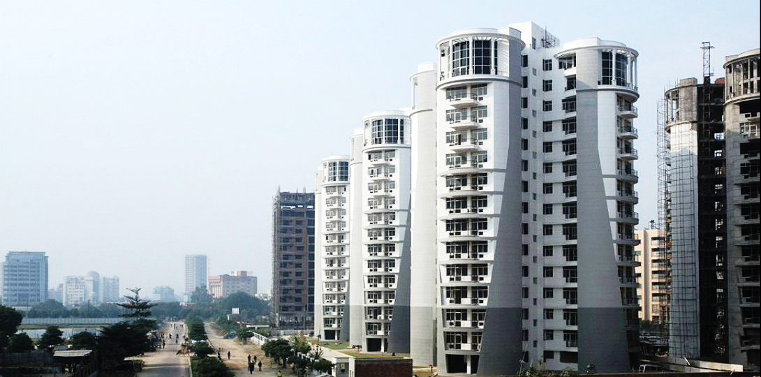 Multi-storey apartments